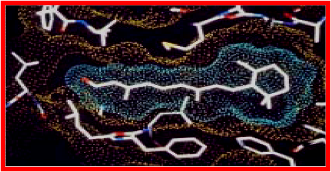 Ռետինոլ